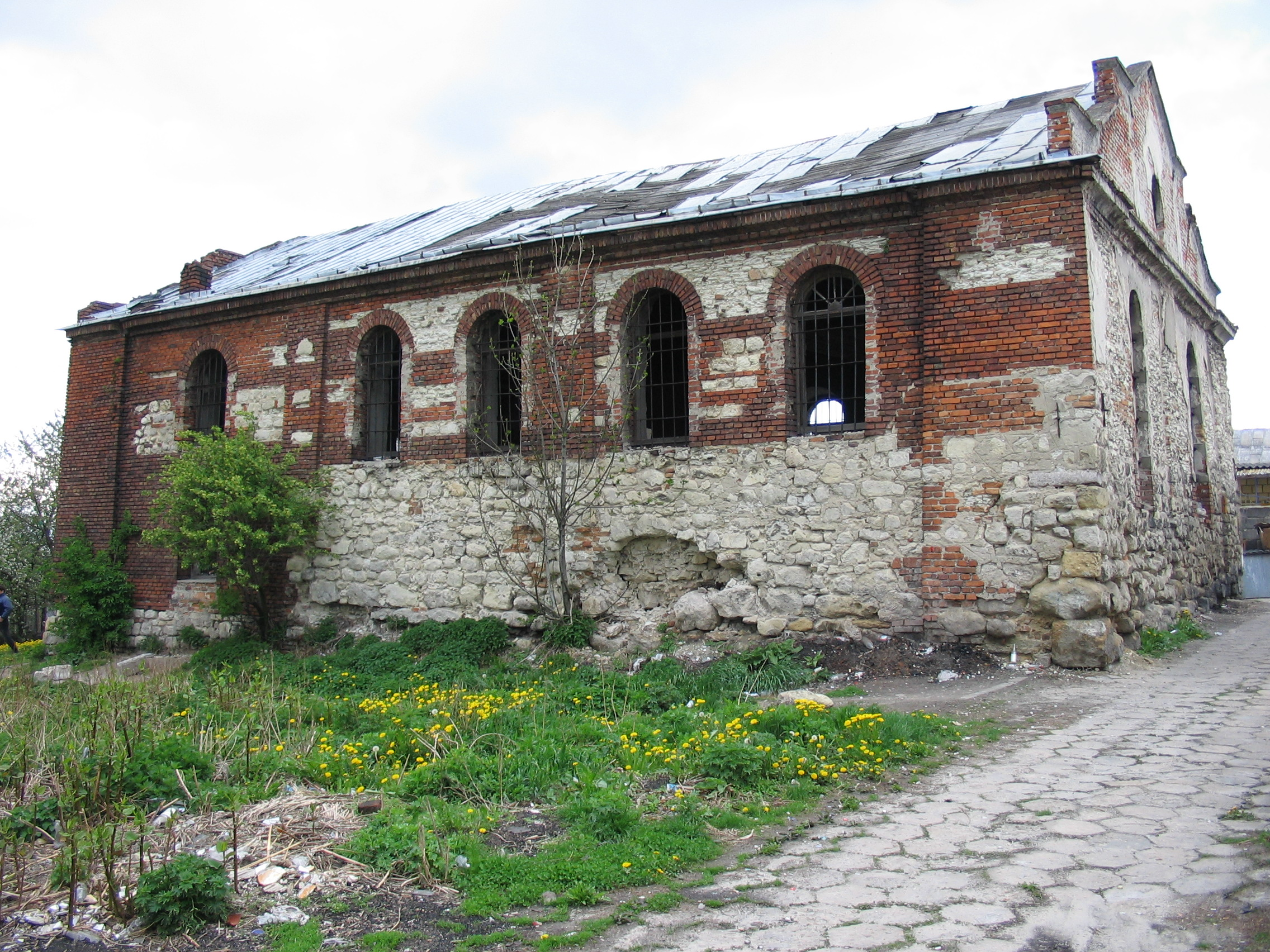 Synagogue in Książ Wielki